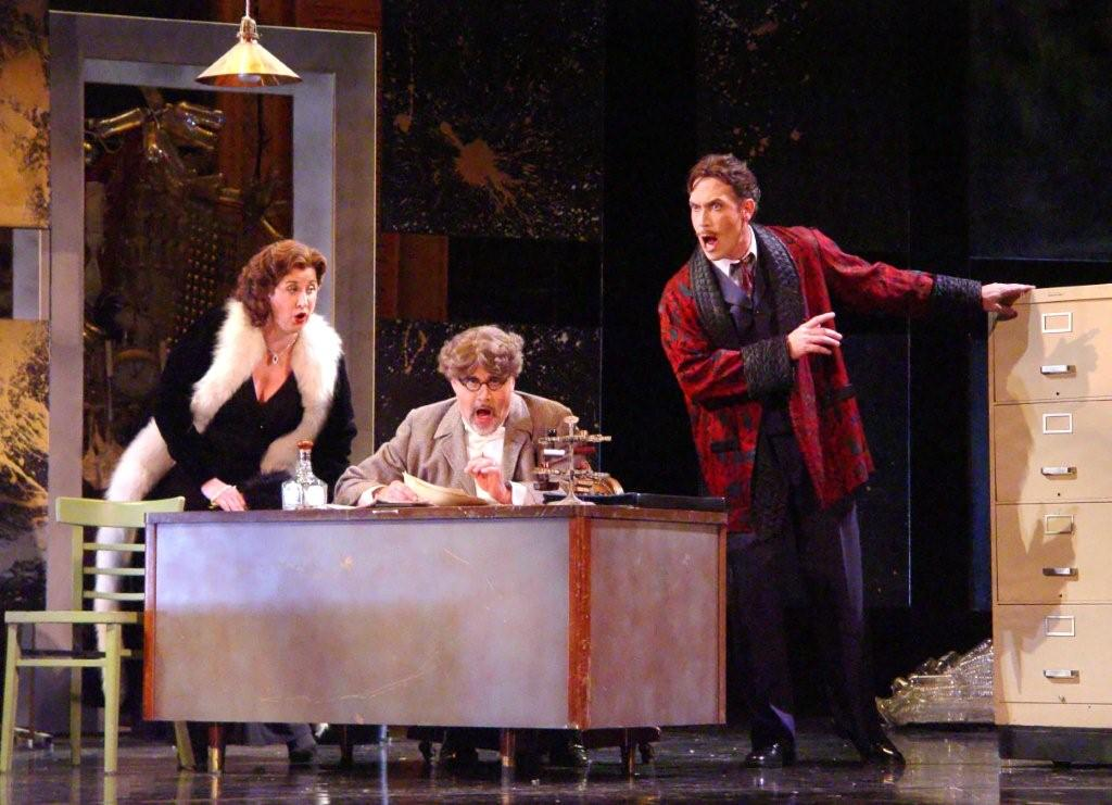 From a July 2009 production of Die Fledermaus at the Opera Theater of Pittsburgh